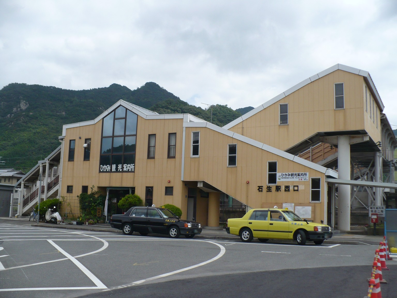 West side building of Isou station of JR West Fukuchiyama line, Tamba, Hyogo, Japan